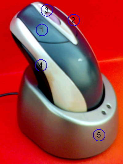 Wireless mouse with five buttons, scroll wheel and dock